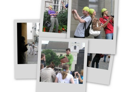 Players before and during the urban game (city game) of Lumenatio in 2007 in Warsaw.